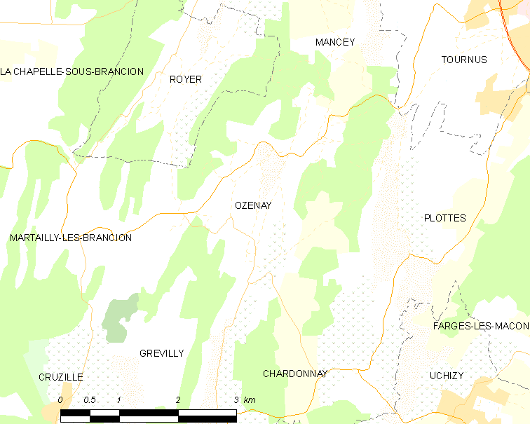 Map of French municipality